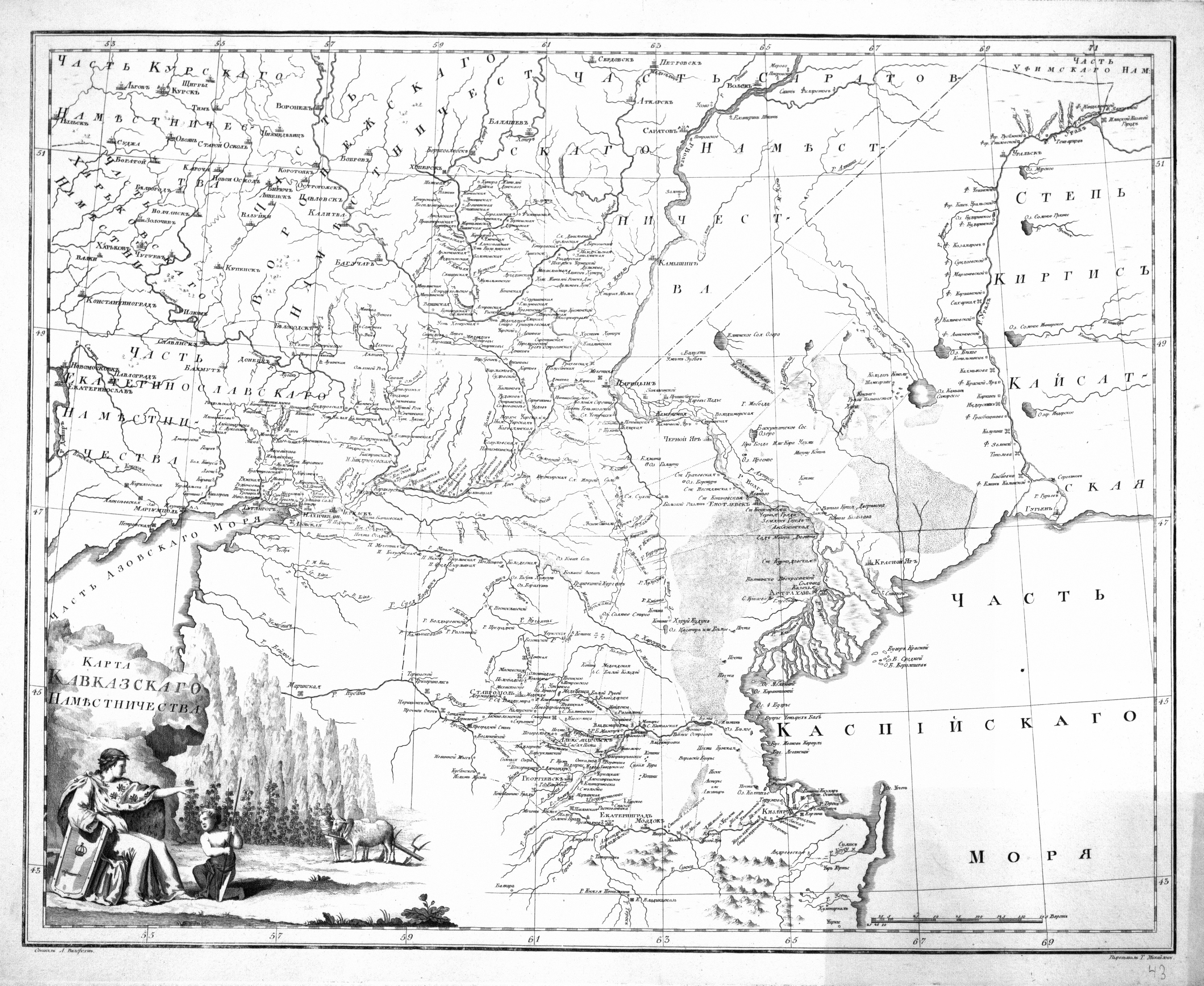 Map of 1st Caucasus Namestnichestvo and Don Voisko (sheet 43) from official Atlas of Russian Empire (1792).